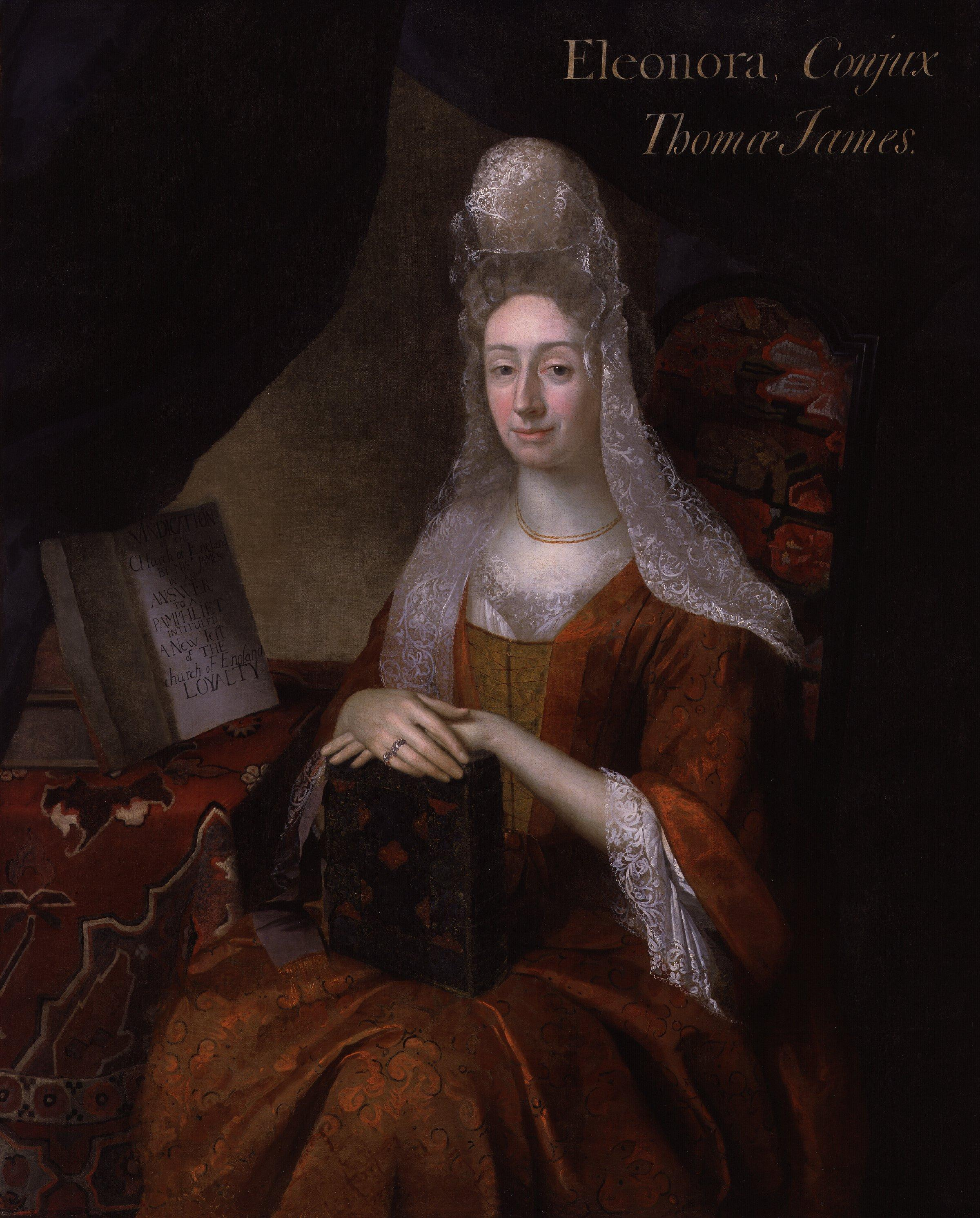 Portrait of Eleanor James